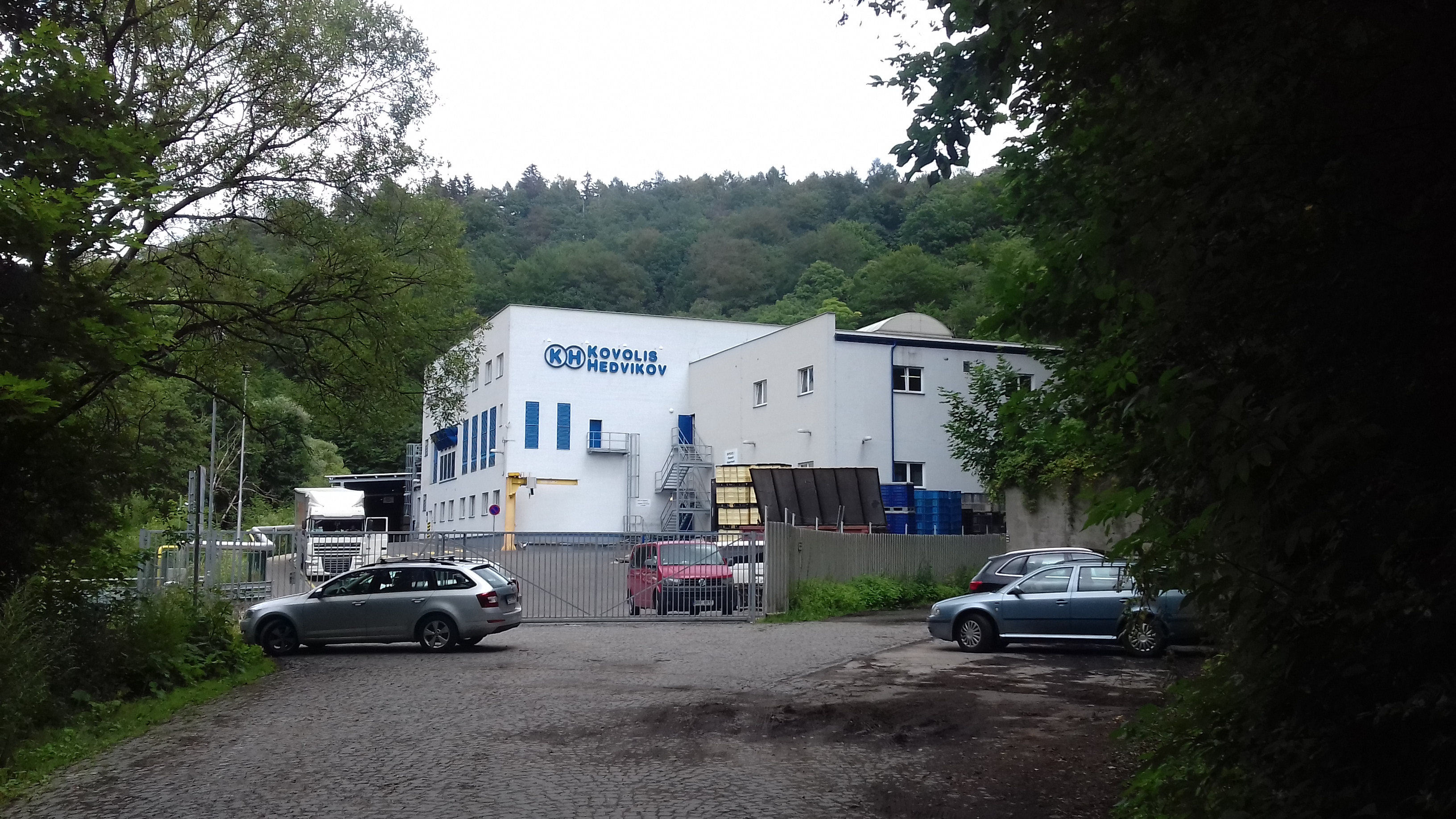 Hedvikov, neighborhood of Třemošnice, Chrudim District